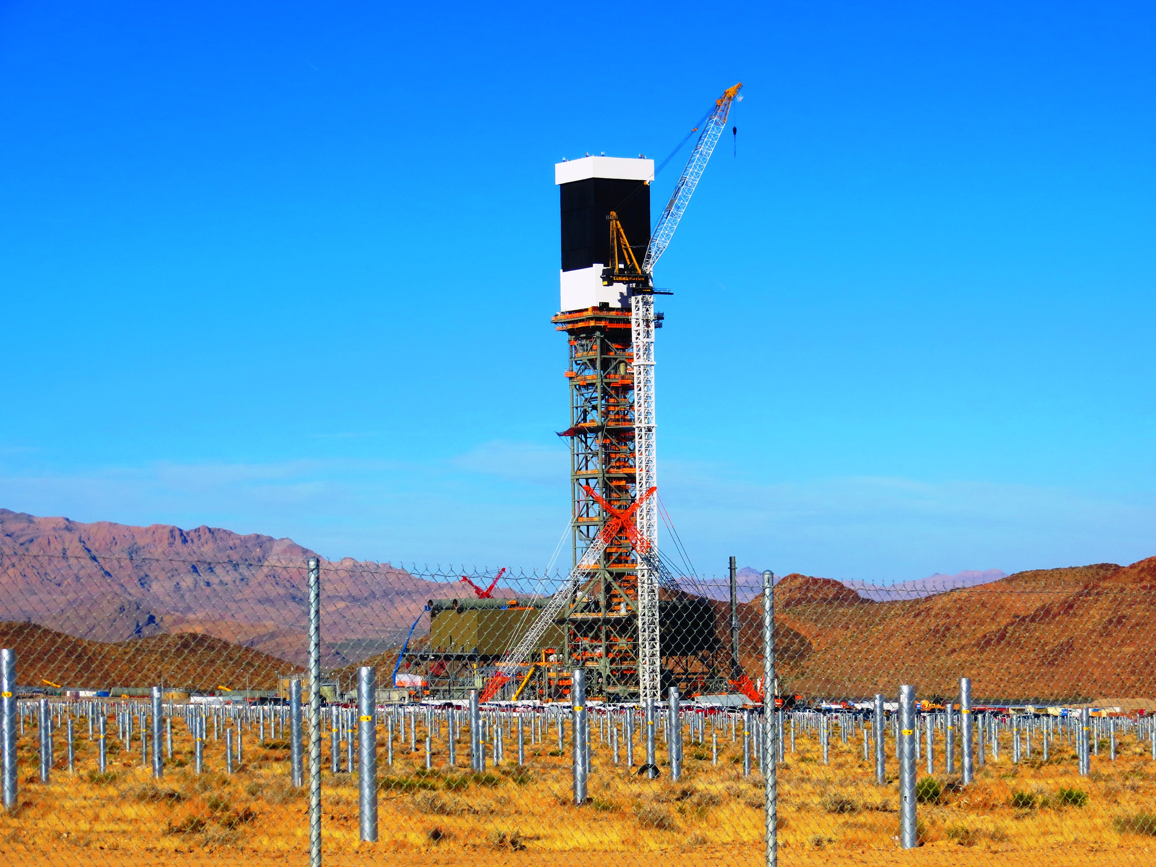 Power tower #2 of the Ivanpah Solar Electric Generating System under construction outside Primm, Nevada